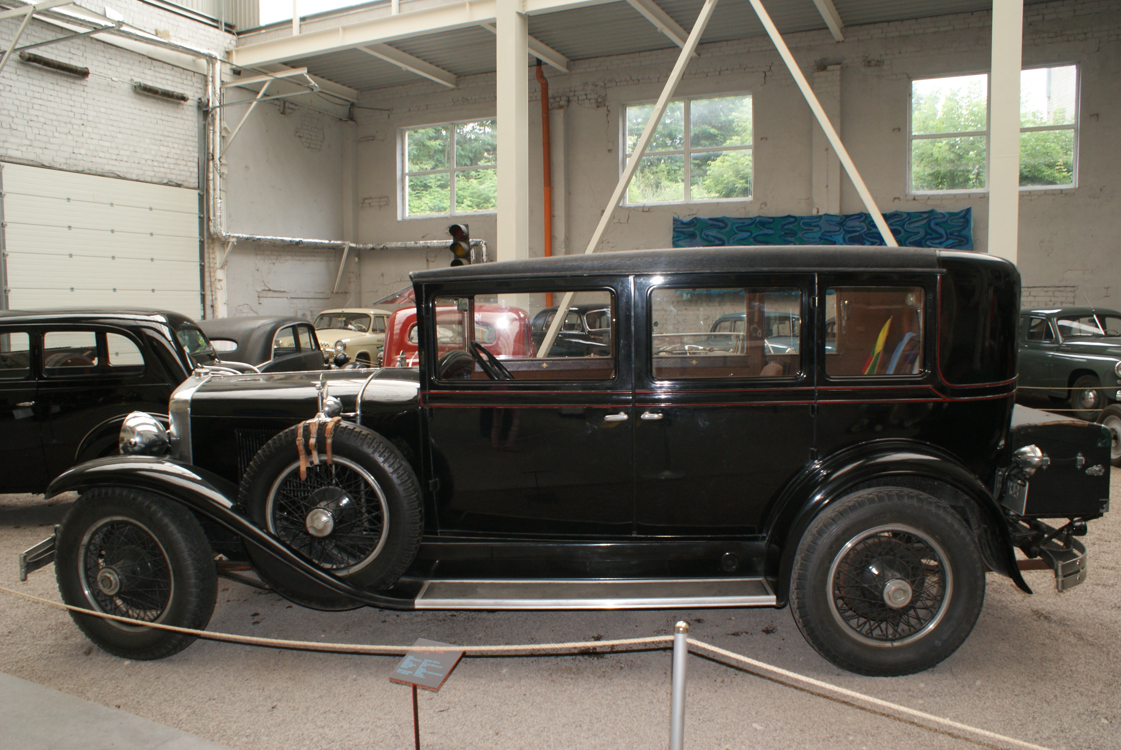 LaSalle 1928 Seven Passenger Sedan in Vilnius Energy and Technology Museum